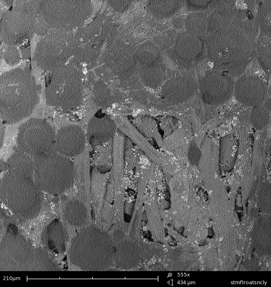 Adhesive side of a post-it note, magnified 555x on an SEM